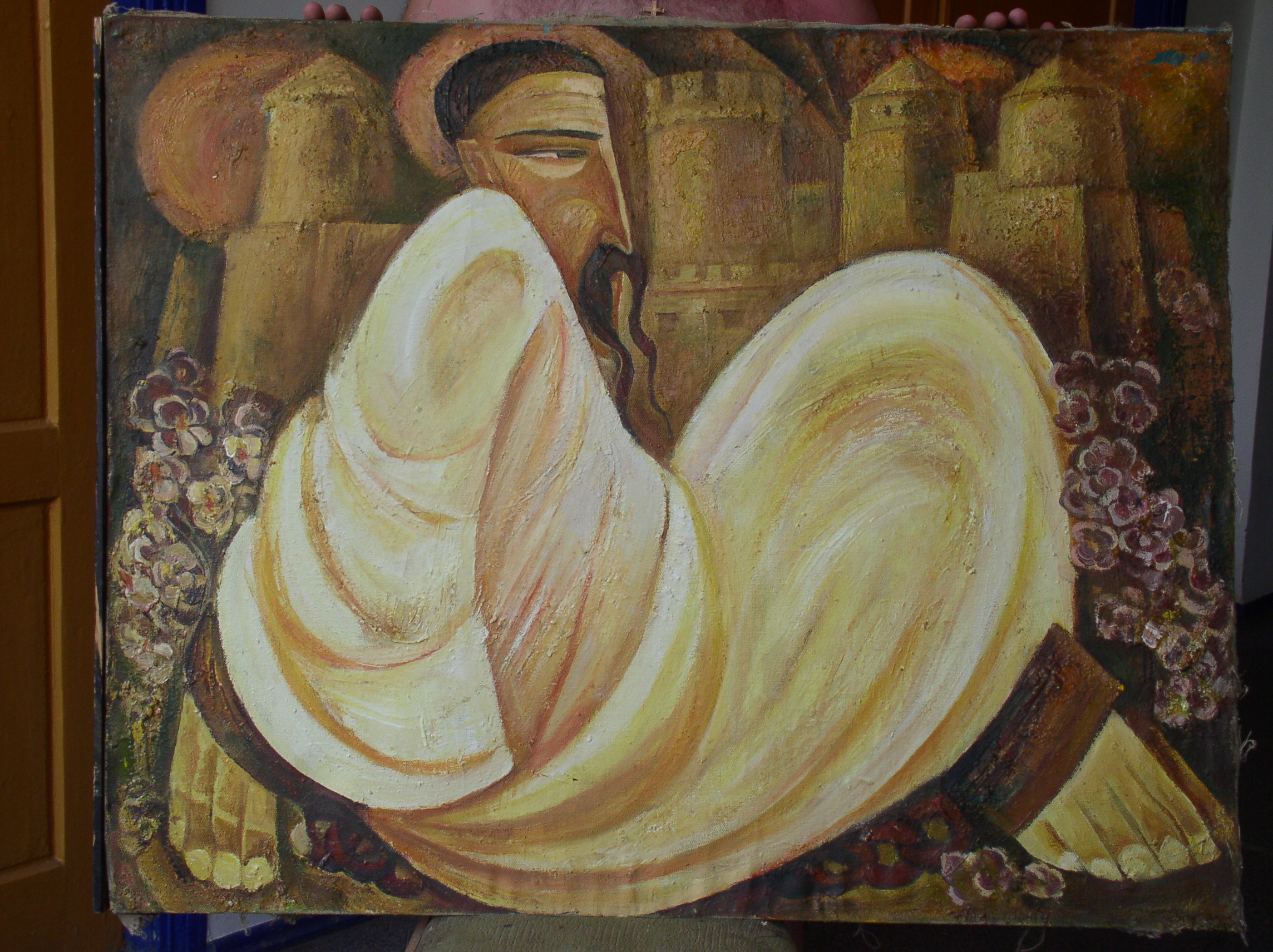 Chornyi Mykhaylo. Ustym Karmalyuk, the Podolian Robin Hood. 1989. - oil, canvas. - 60x100 cm.